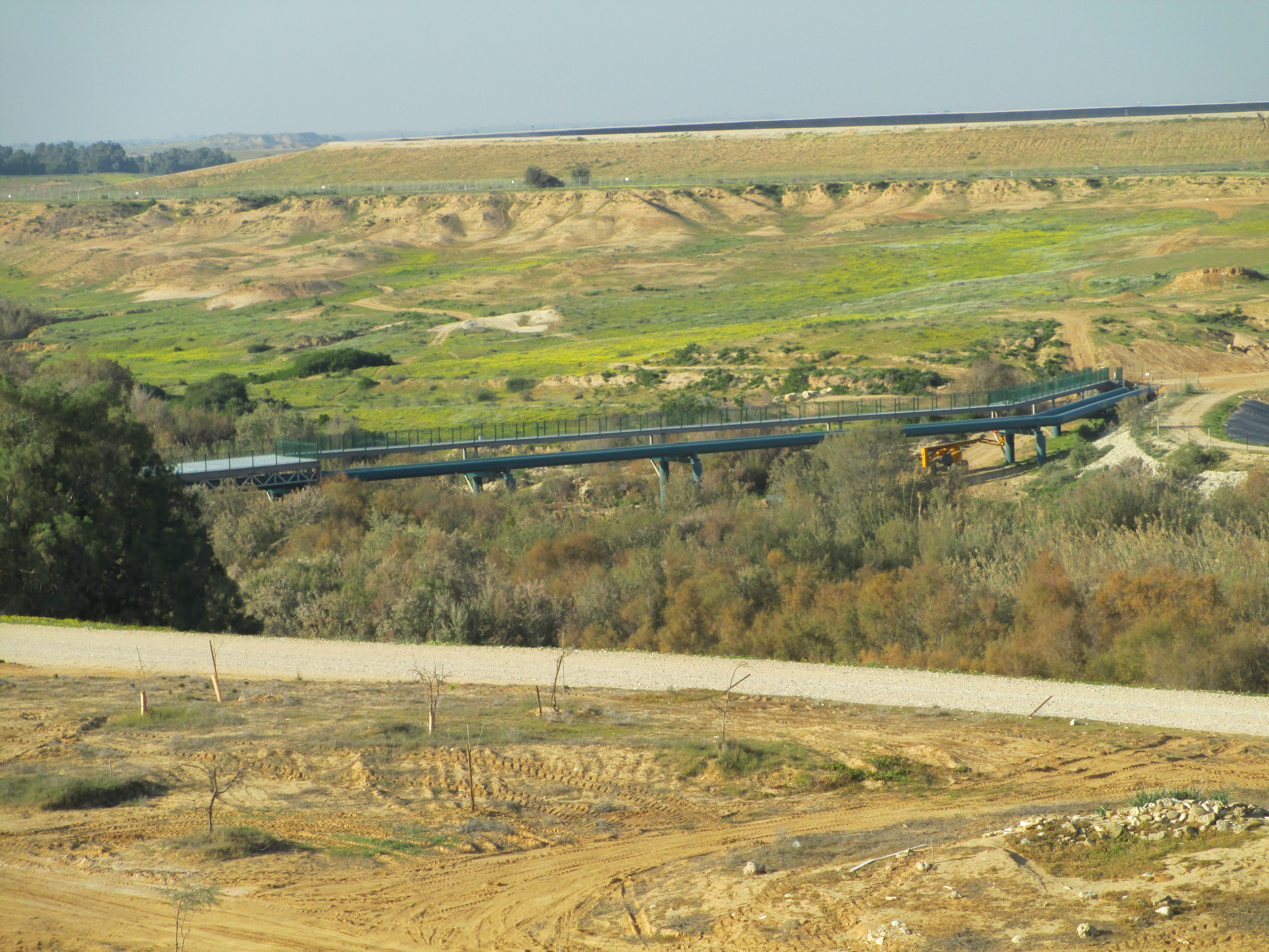 Pipes bridge on Habsor river